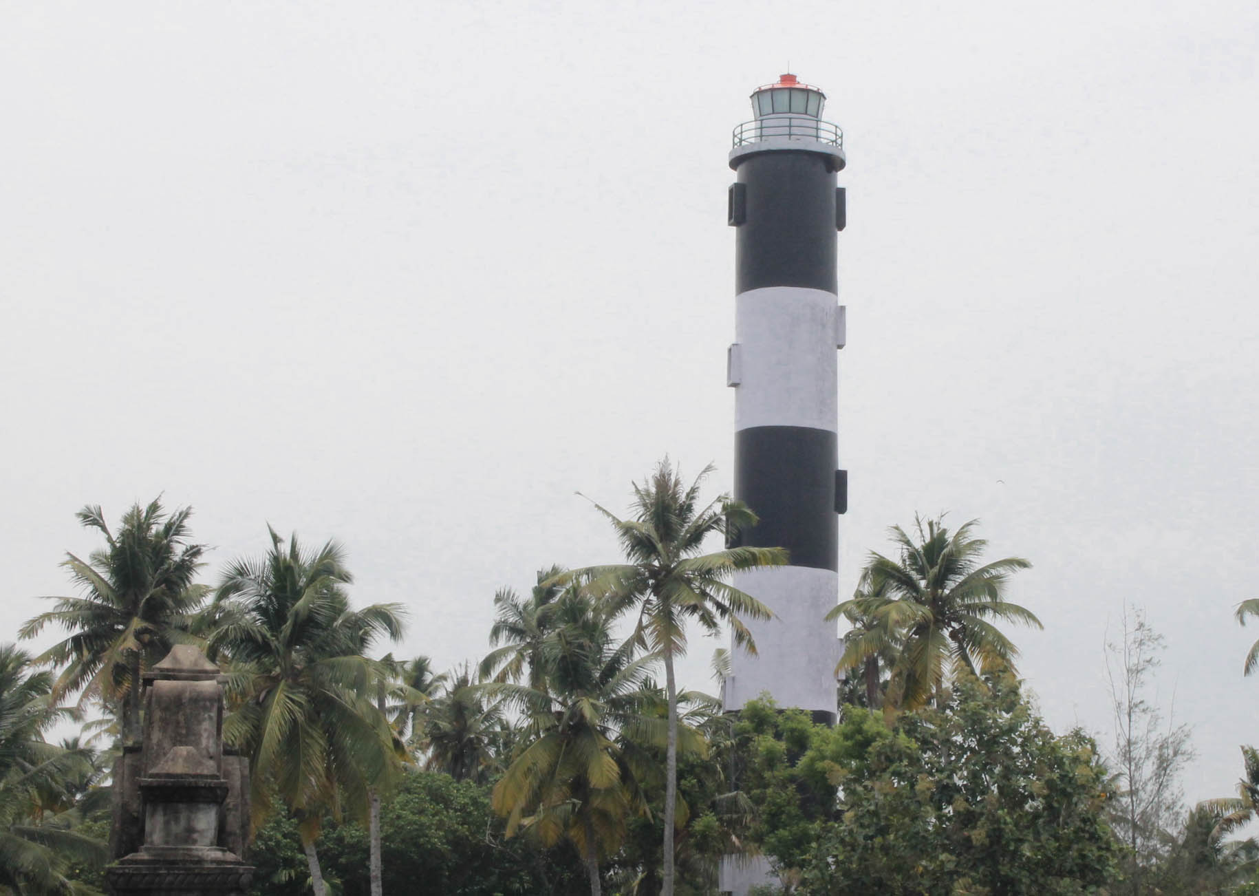 Anchuthengu Lighthouse